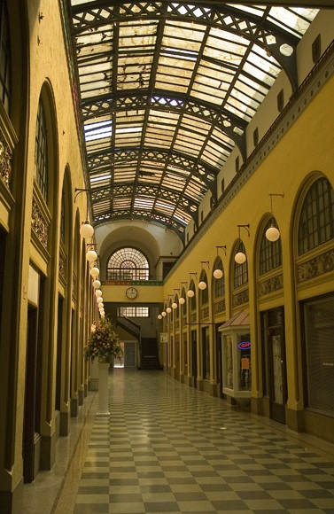 The Huntington Arcade on Fourth Avenue, Huntington, West Virginia.